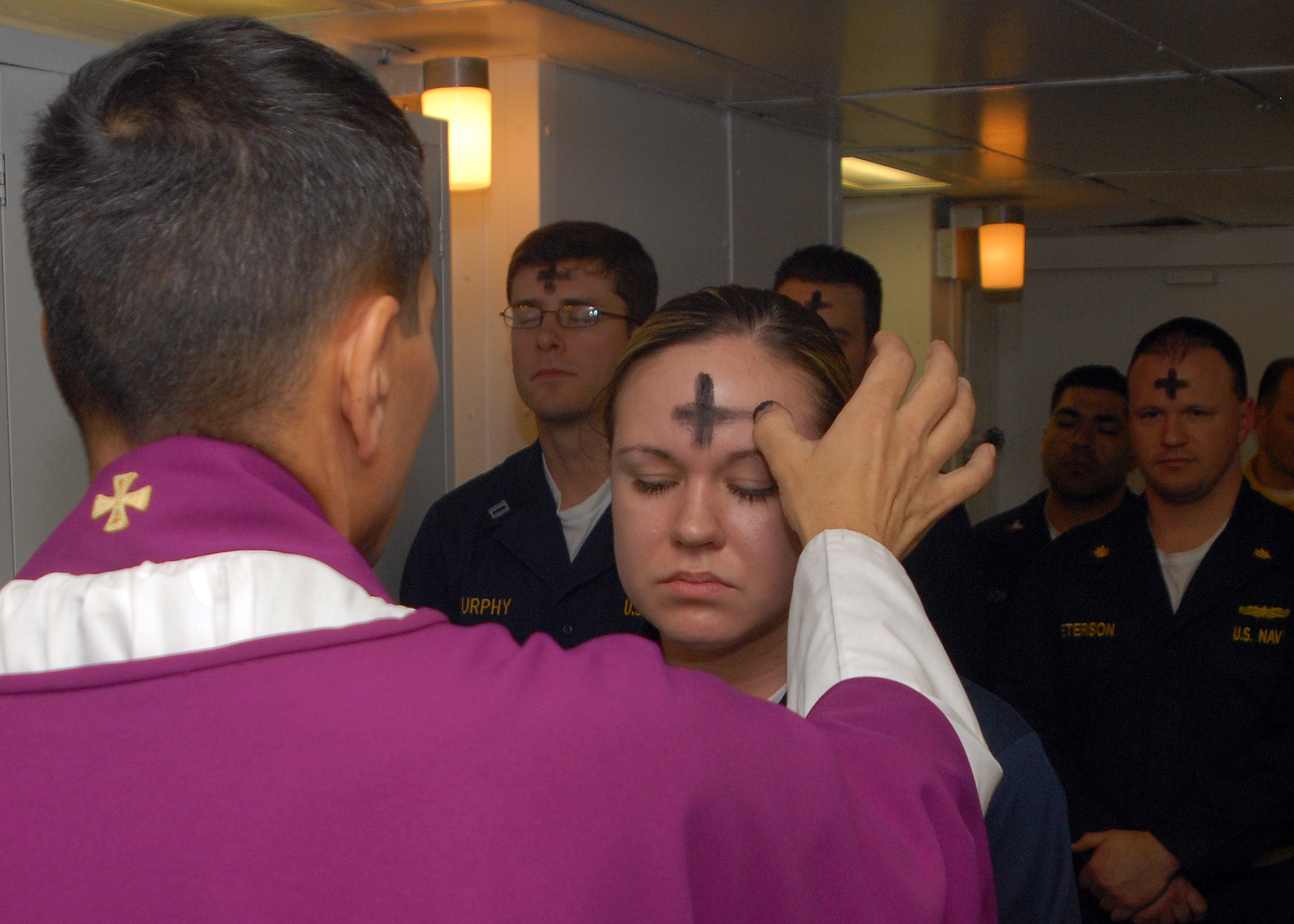 Atlantic Ocean (Feb. 6, 2008) Electronics Technician 3rd Class Leila Tardieu receives the sacramental ashes during an Ash Wednesday celebration aboard the amphibious assault ship USS Wasp (LHD 1). U.S. Navy photo by Mass Communication Specialist 3rd Class Brian May (Released)